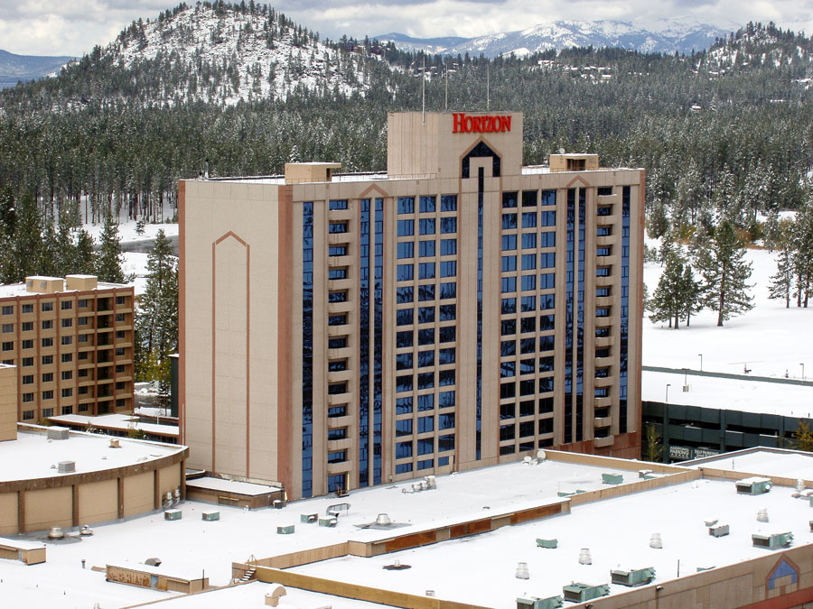 Horizon.